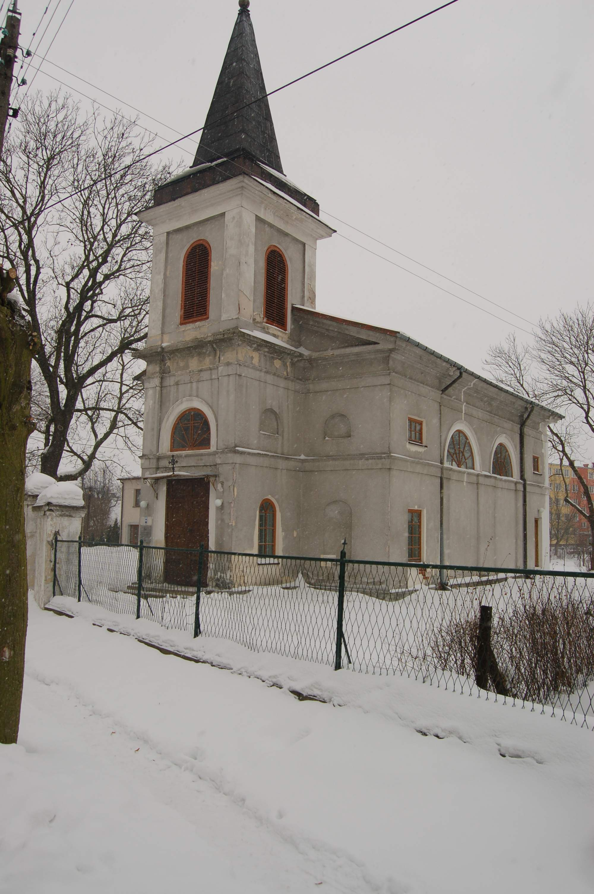 Protestant church Holy Trinity in Węgrów, Hazowsze, Poland